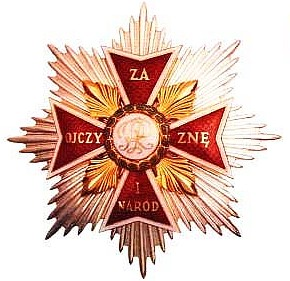 Order of White Eagle_Poland. Order Star. The Highest Civilian Order in Poland. Official Pattern